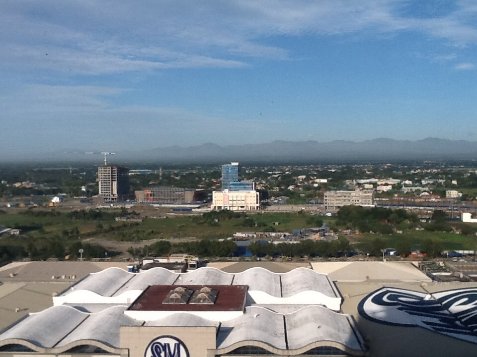 Marriott Hotel (under construction, leftmost). Iloilo Convention Center (under construction, second from left). SM City Iloilo (bottom), southern part of the central mountains of Panay (horizon).